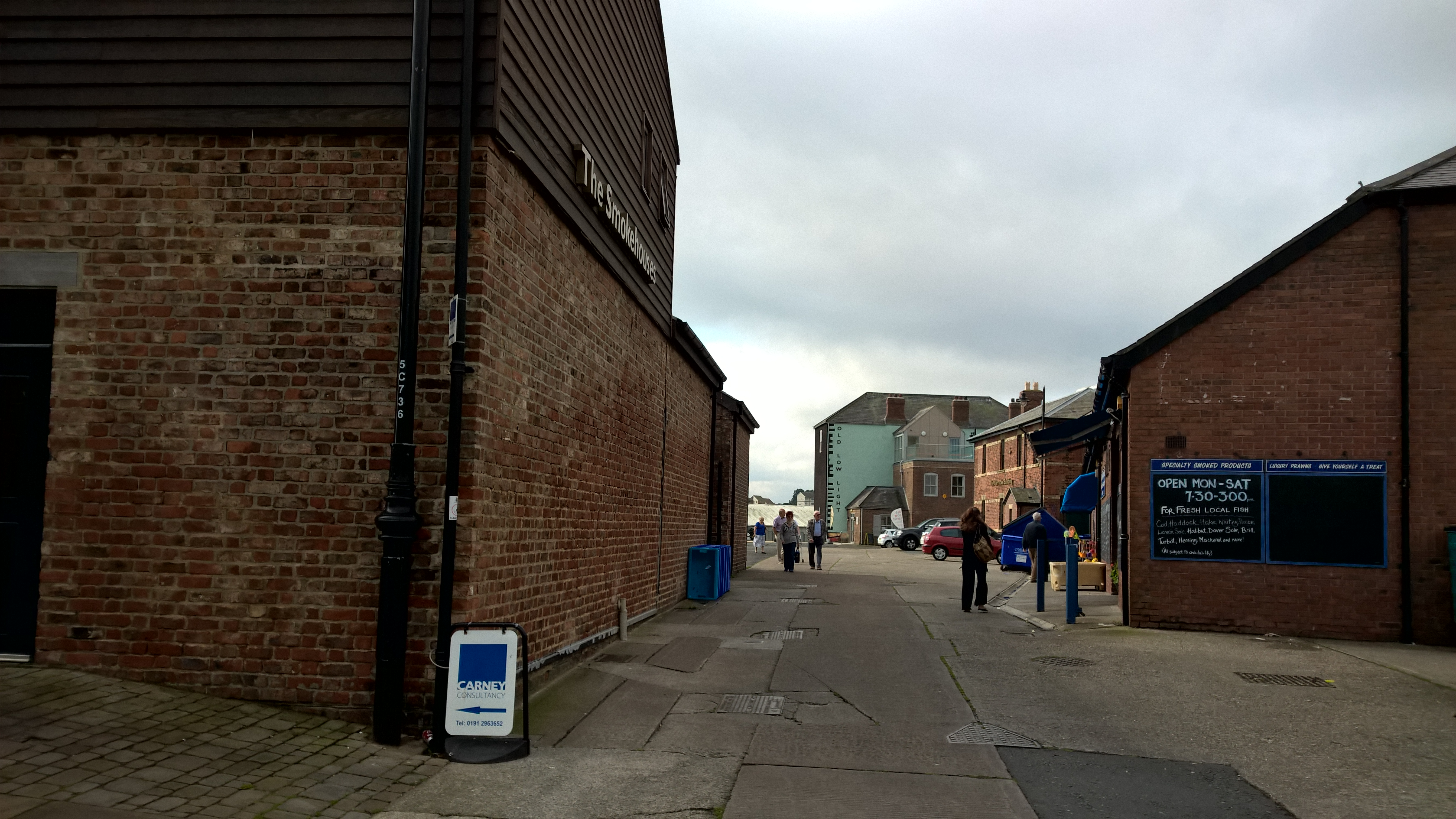 Buildings on Clifford's Fort: former smokehouses, Old Low Light, former barracks, fishmongers' stalls.